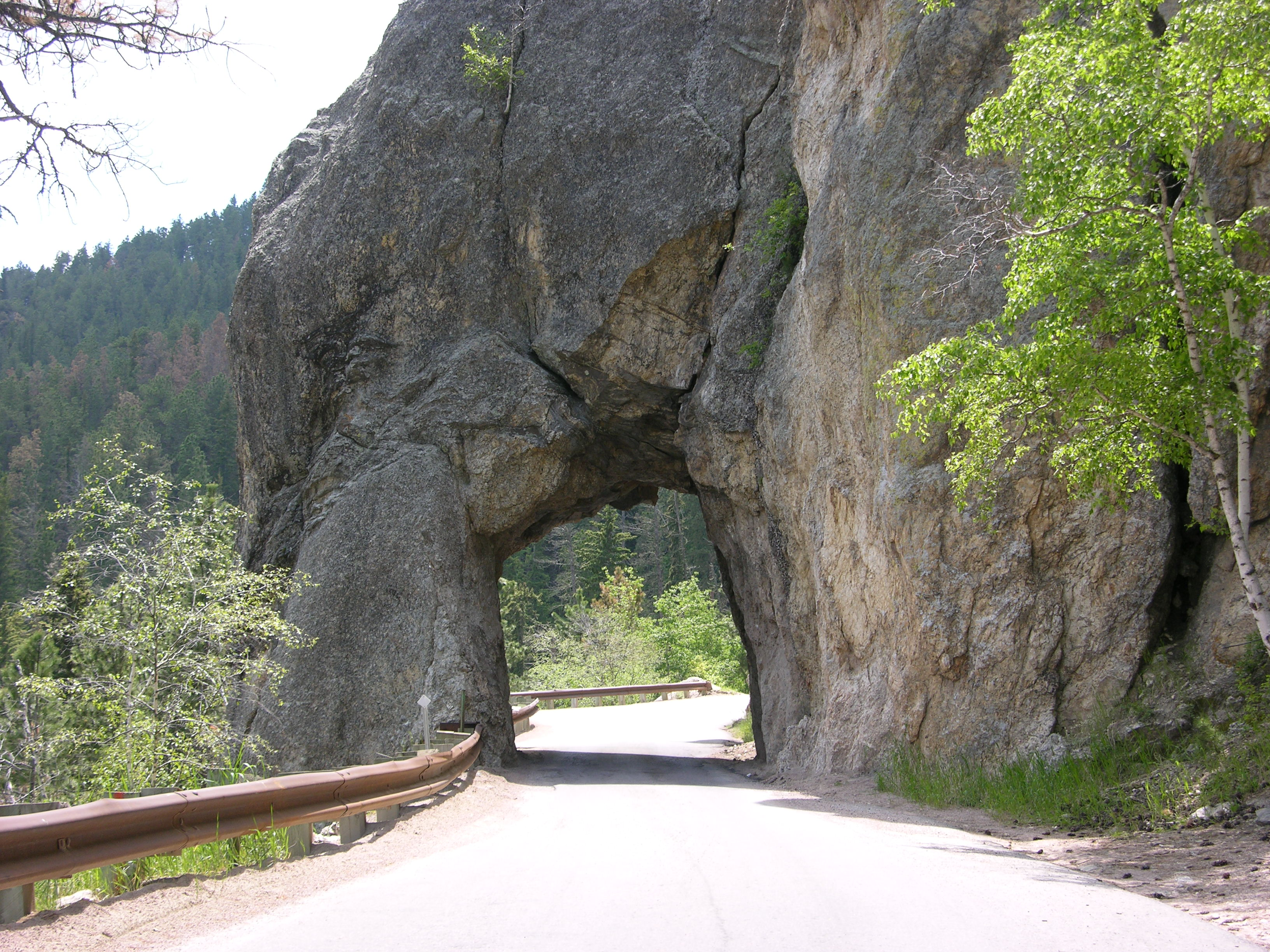 Road tunnel on the way to Iron Mountain, Black Hills, SD.